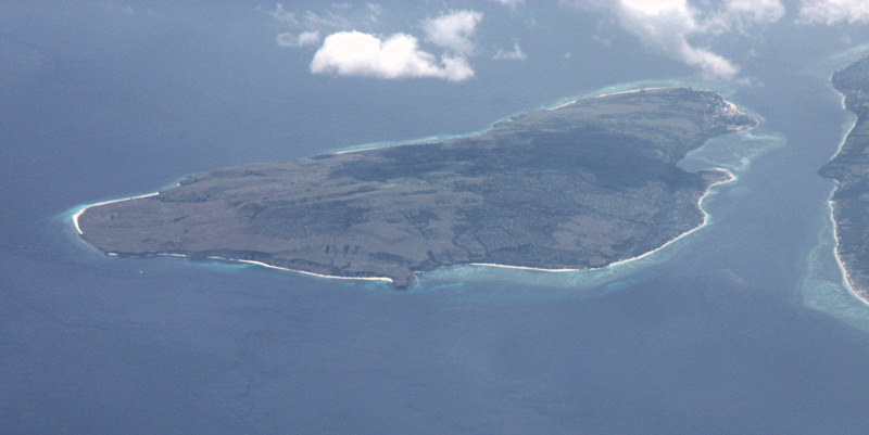 Kangge island, next to Pantar island, Alor Archipelago, Indonesia. Aerial view.